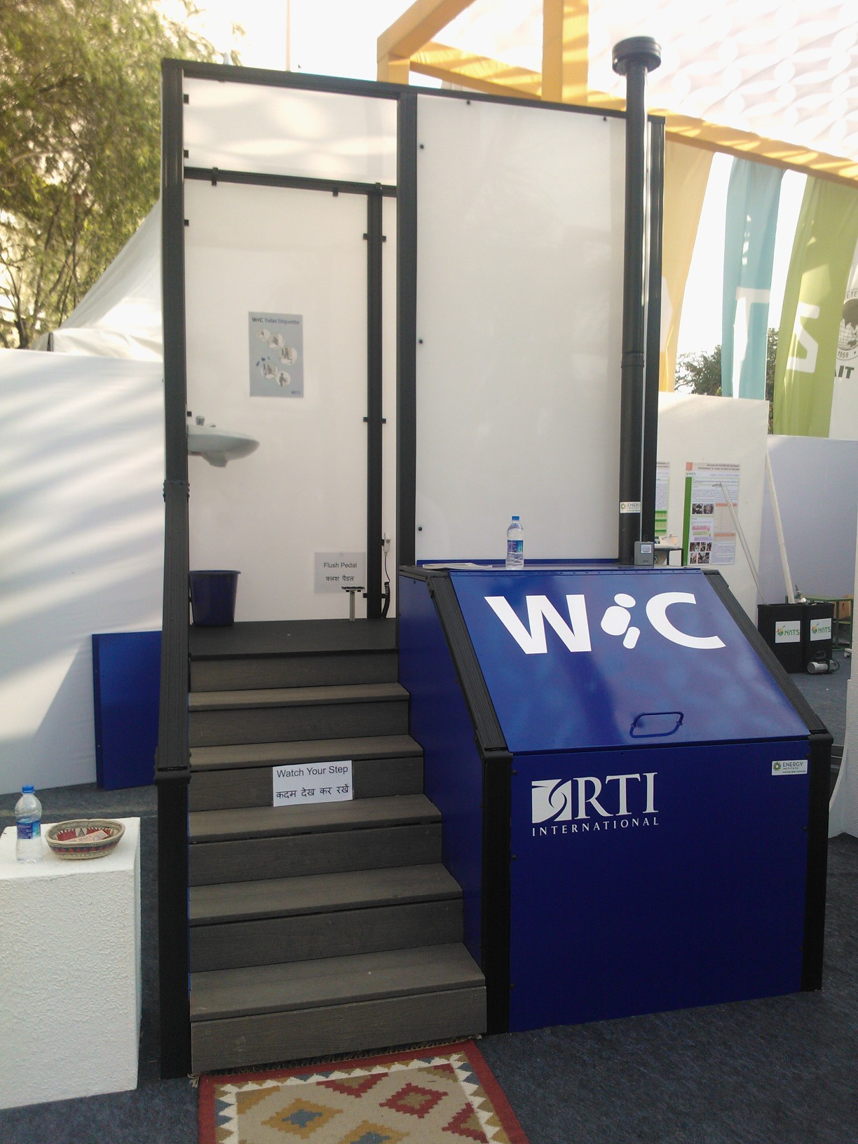 WiC RTI International, Roca Sanitario, S.A., Duke University, Colorado State University, AppTech Solutions, NASA, U.S. Naval Research Lab, and NEERMAN USA, Spain, and India